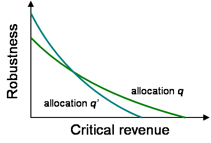 Robustness curves cross